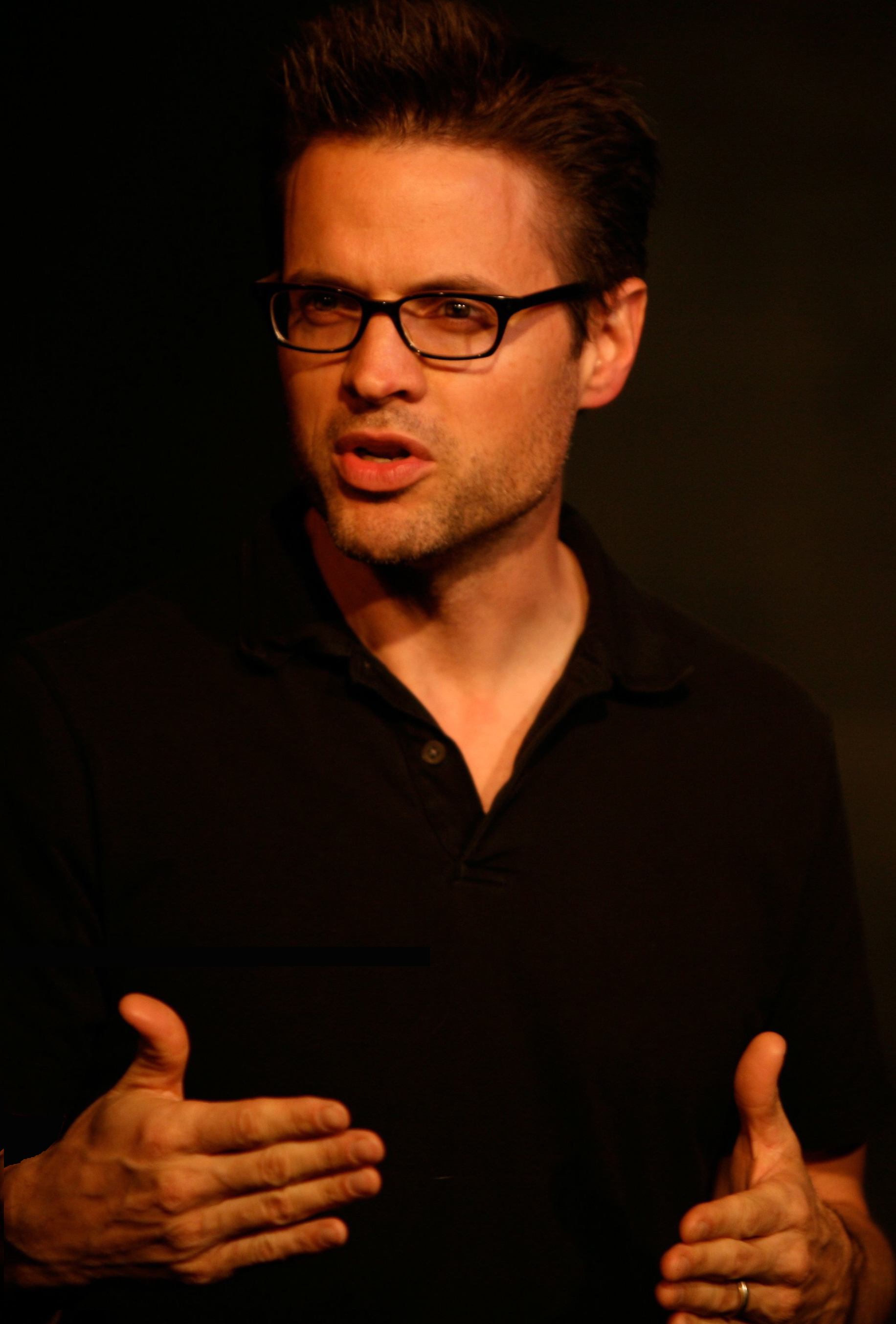 Michael Woolson addressing students in class